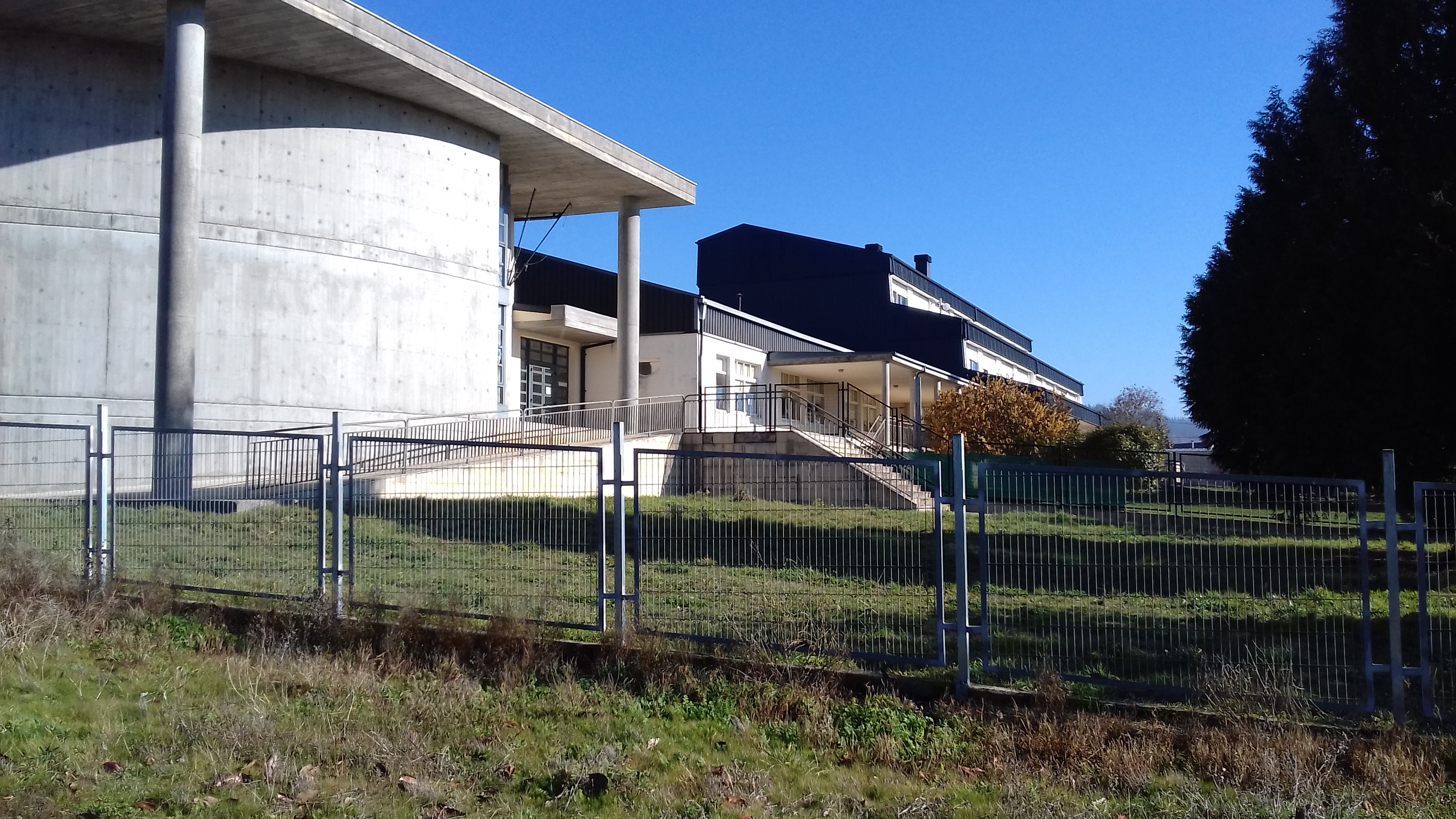 CPI Tino Grandío school building